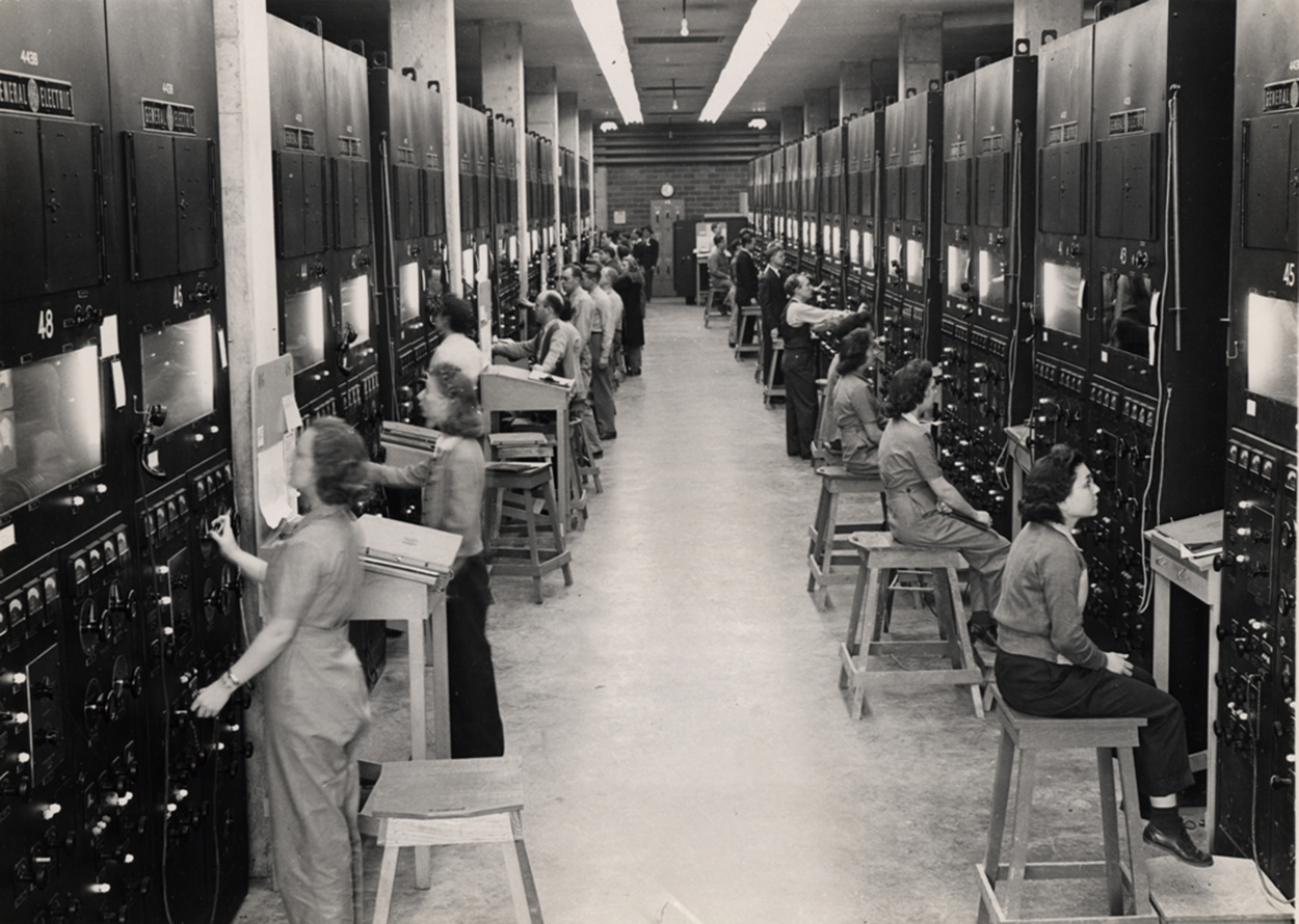 Y-12 Calutron Operators Calutron Operators monitored various components of the machine used to separate isotopes of uranium. Calutron operators were predominately female and worked in shifts 24 hours a day.